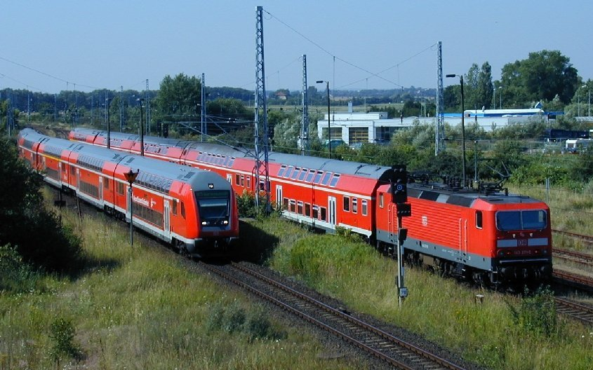 A so-called push-pull-train of Rostock's suburban rail network